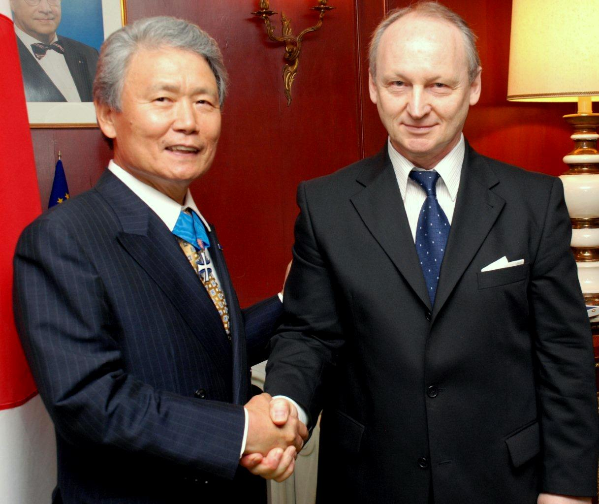 Toivo Tasa, Ambassador to Japan, conducted an investiture ceremony for Sadayuki Sakakibara, Chairman of the Toray Industries, Inc., at the Embassy of Estonia in Tokyo on June 25, 2012. Sakakibara was given the 3rd Class of the Order of the Cross of Terra Mariana from Tasa.